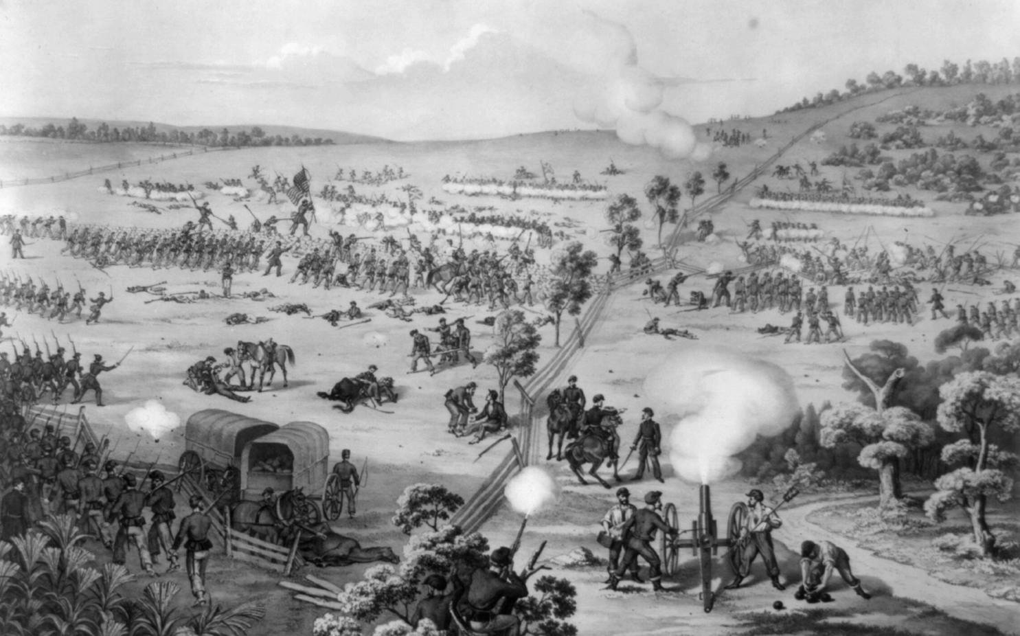 The battle of South Mountain, MD. Sunday, Sept. 14, 1862